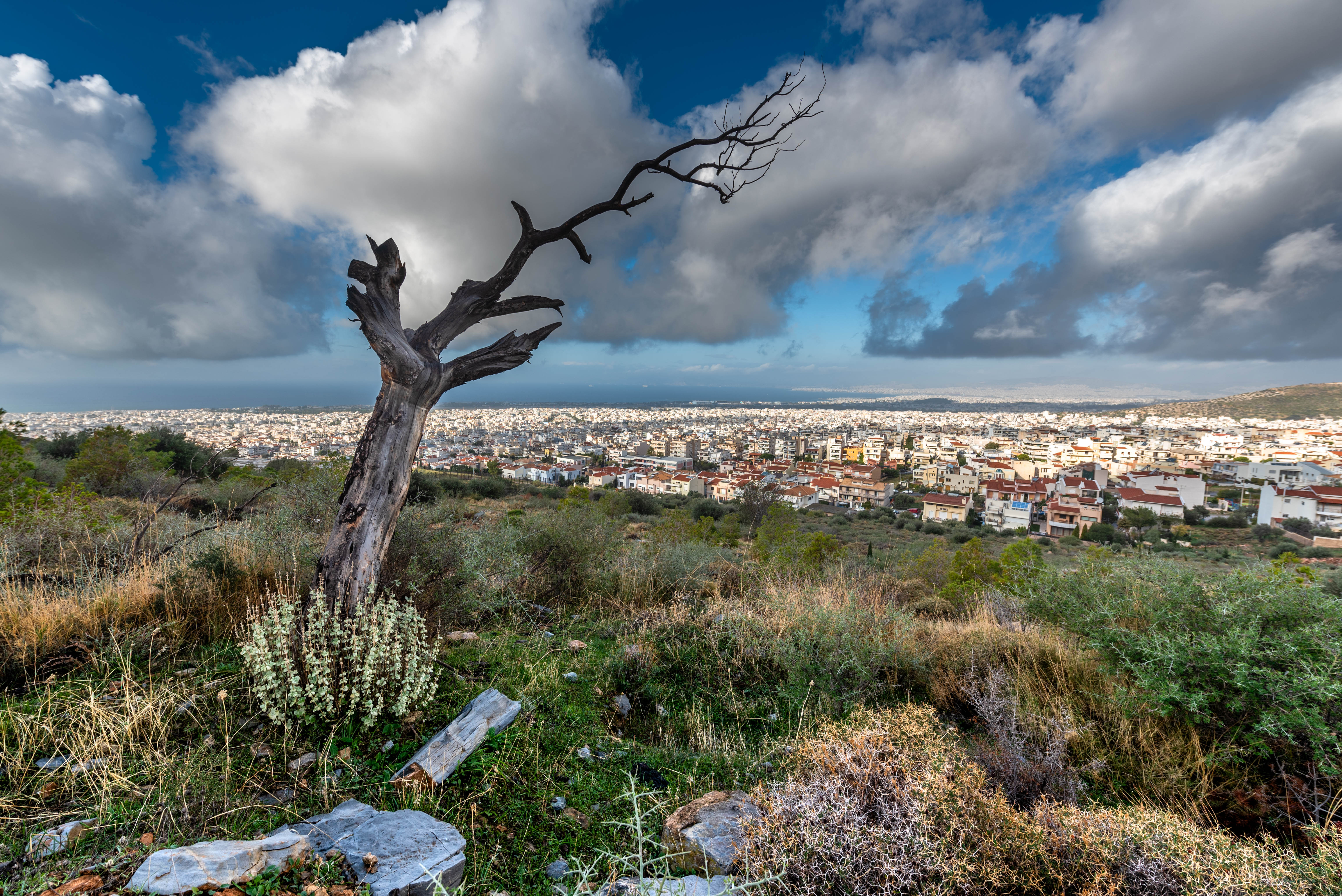 This is a photography of Natura 2000 protected area with ID GR3000006